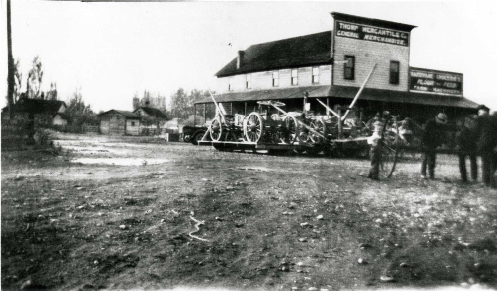 Thorp Mercantile Company and general store in Thorp, Washington. ca. 1915. Scan of photographic print.